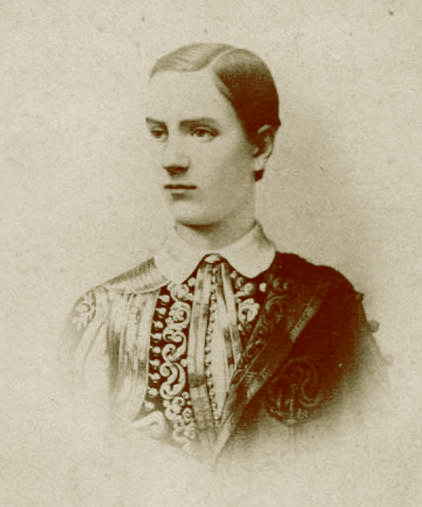 Georgios I, King of Greece (b.1845-d.1913)